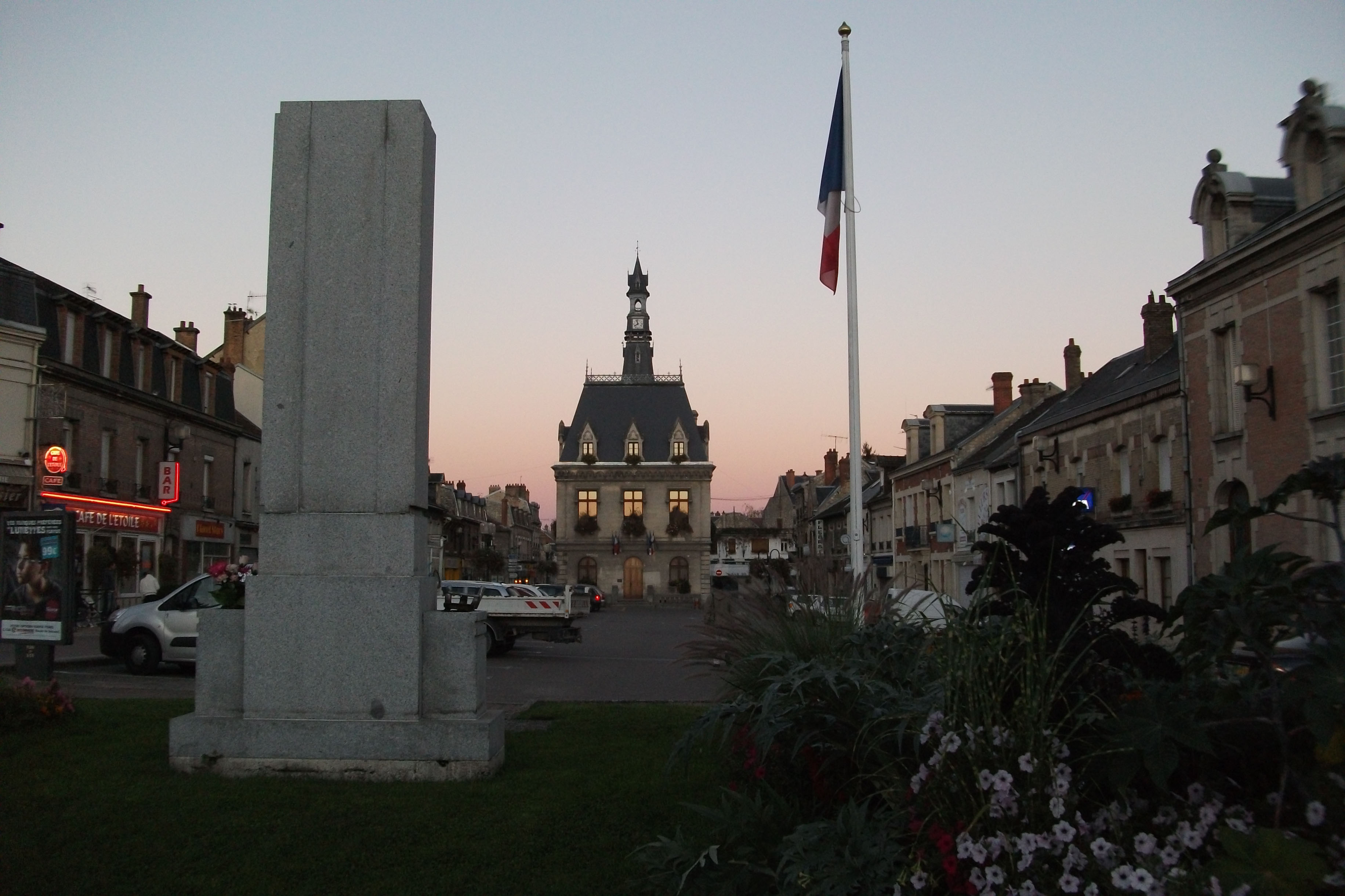 place de la mairie, façade est de la dite mairie.